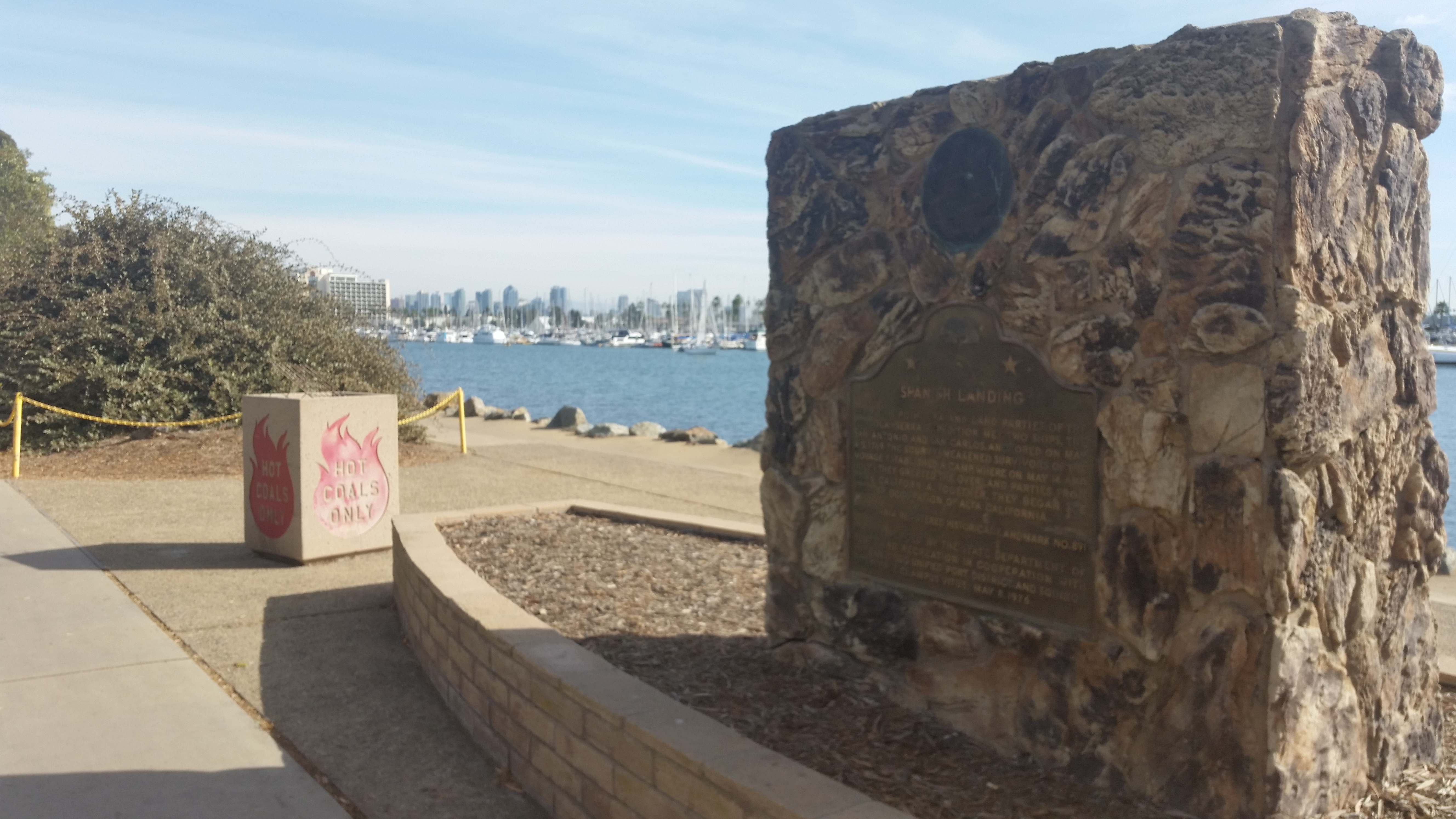 Near this point, sea and land parties of the Portolá-Serra expedition met. Two ships, the San Antonio and San Carlos, anchored on May 4-5, 1769. The scurvy-weakened survivors of the voyage established a camp, where on May 14 and July 1 they greeted the overland parties from Baja California. Together, they began the Spanish occupation of Alta California. California Registered Historical Landmark No. 891 Plaque placed by the State Department of Parks and Recreation in cooperation with the San Diego Unified Port District and Squibob Chapter, E Clampus Vitus, May 8, 1976.